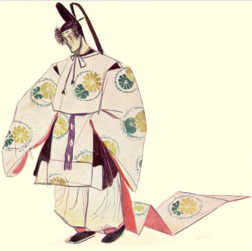 copyright expired Artist Charles Ricketts died 1931. Drawings are out of copyright. Tim Riley 03:16, 12 April 2007 (UTC)